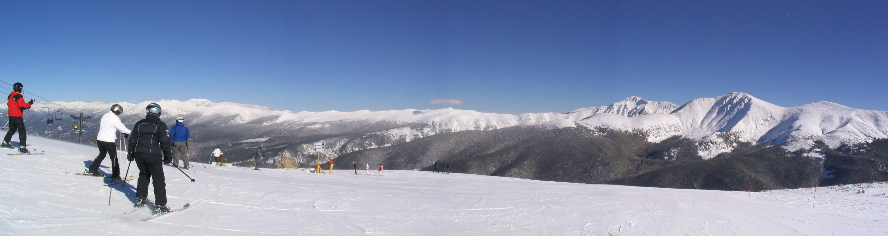 View looking north from the top of Parsenn Bowl, Winter Park Resort. Image taken by DebateLord on January 5, 2006.